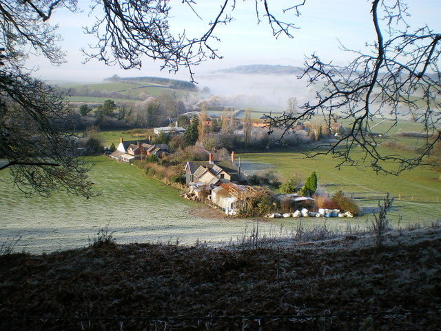 The settlement at Bachaethlon This is part of the village of 'City' - a misnomer if ever there was one! Photographed from the public footpath on Hopton Uchaf hill.